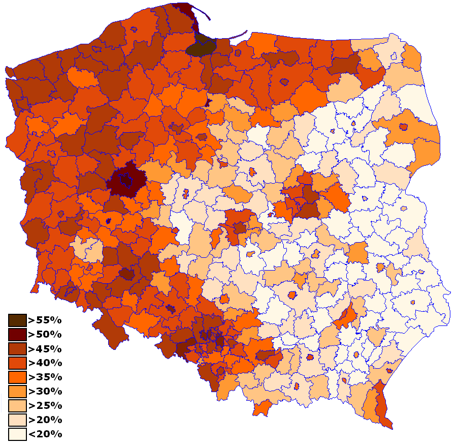 Polish parliamentary election, 2011 - Results of Civic Platform by counties